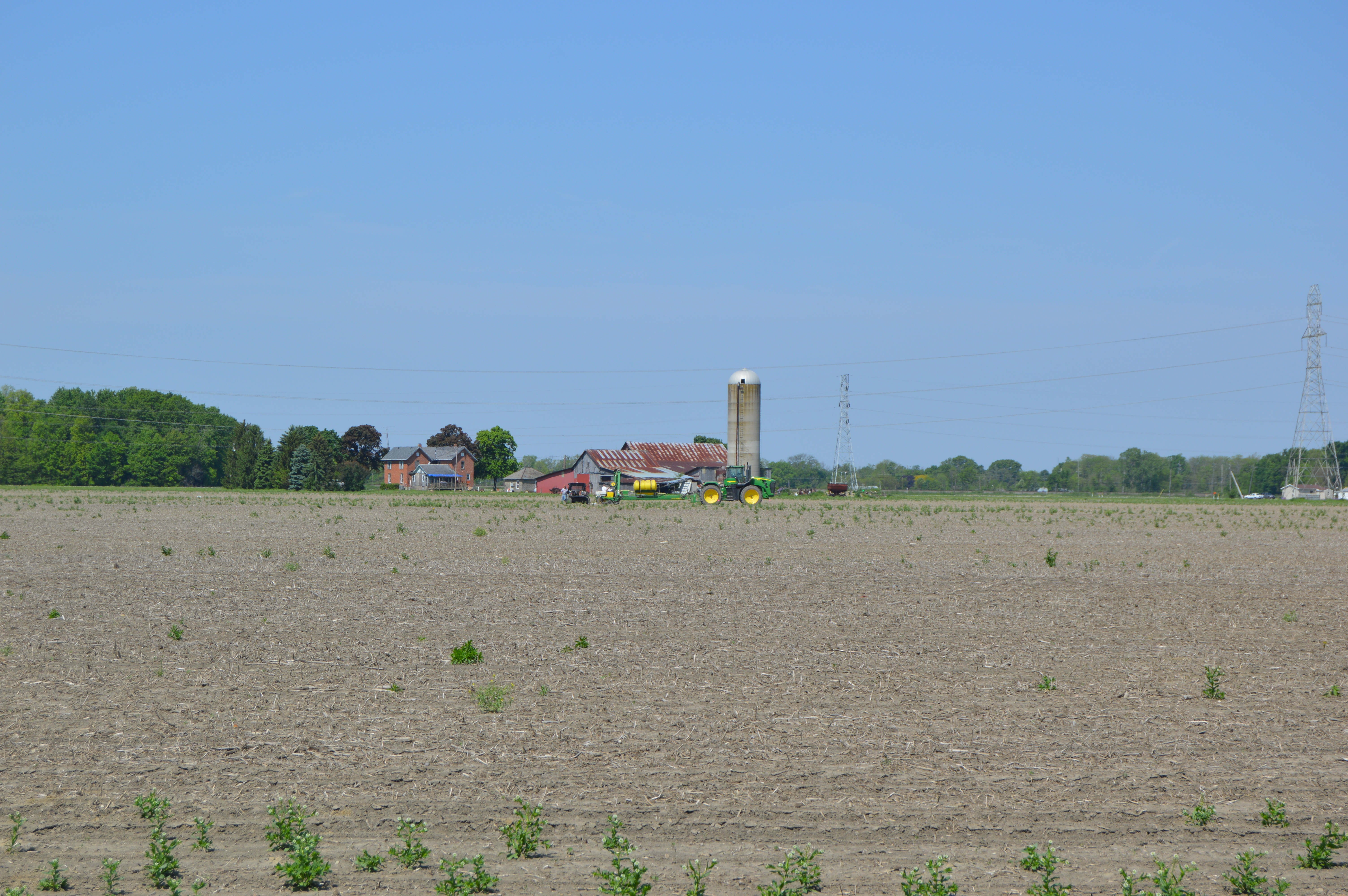 A stubble field on the western side of Bradner Road southeast of Pemberville in Freedom Township, Wood County, Ohio, United States. In the background, a tractor stands ready to pull an agricultural sprayer.